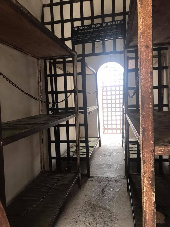 Steel bunkbeds in a Yumja Territorial Prison cell